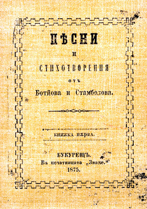 Cover of the poetry book "Songs and Poems by Botev and Stambolov" 1875